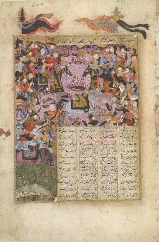 Depiction of the Battle of al-Qādisiyyah from a manuscript of the Persian epic Shāh-nāmeh from Astarabad. Source- British Library (MS. I.O.Islamic 3265 (1614) f. 602r)